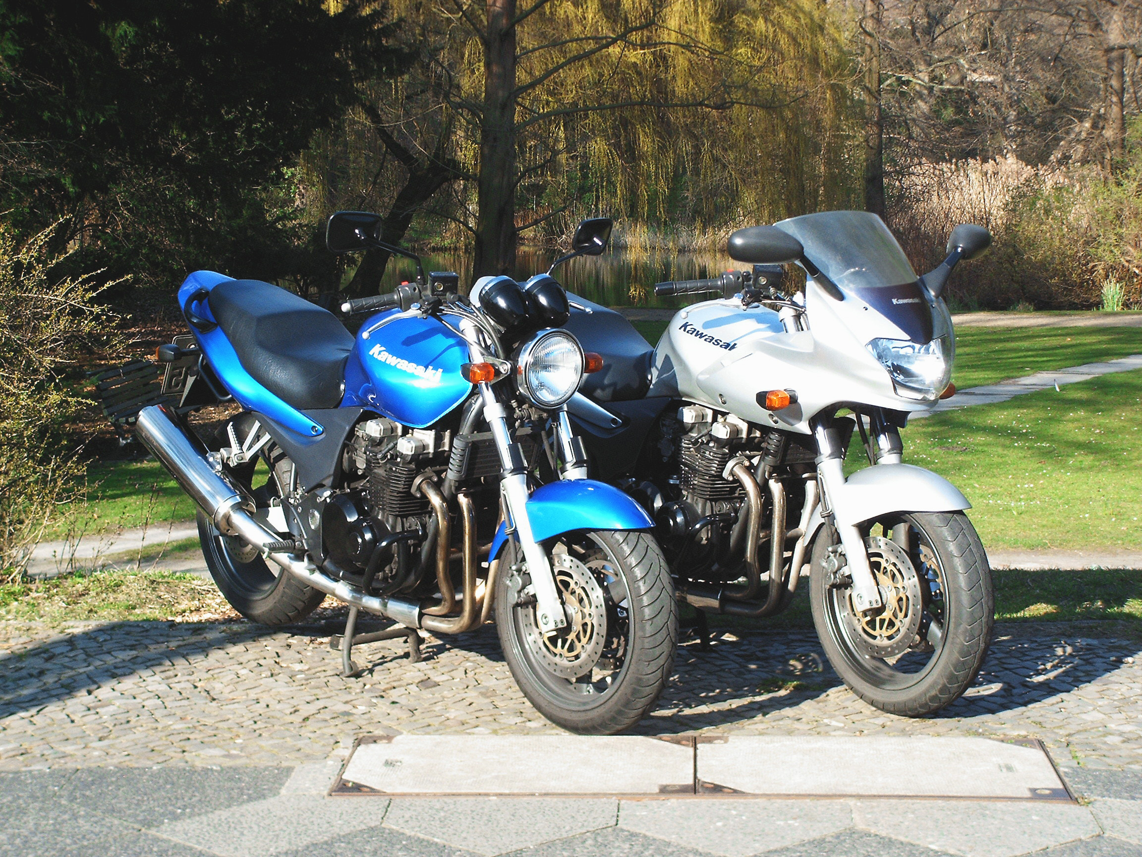 Kawasaki ZR-7 blue, Kawasaki ZR-7S silver, front